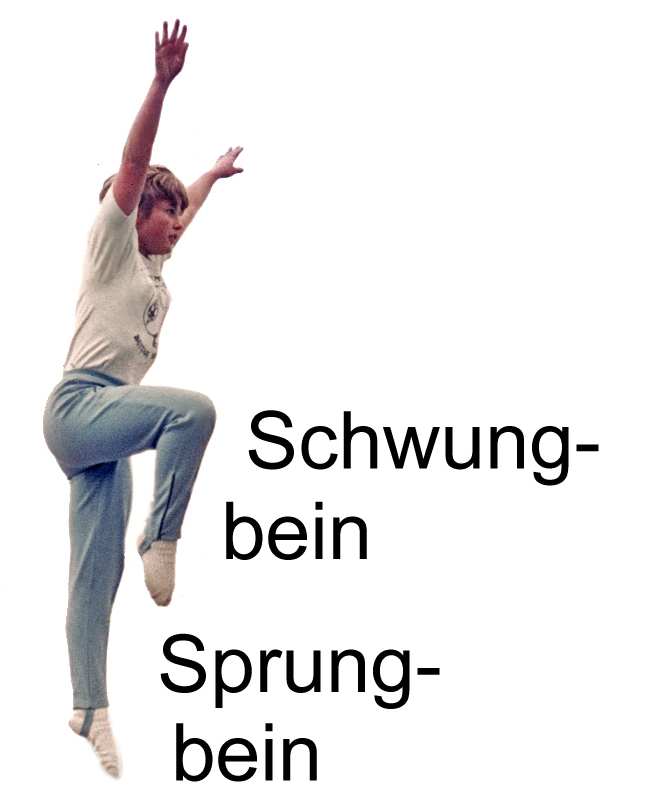 Milena Duchkova, winner olympics high diving 1968 and 1972, taken 1970 in Zurich/CH